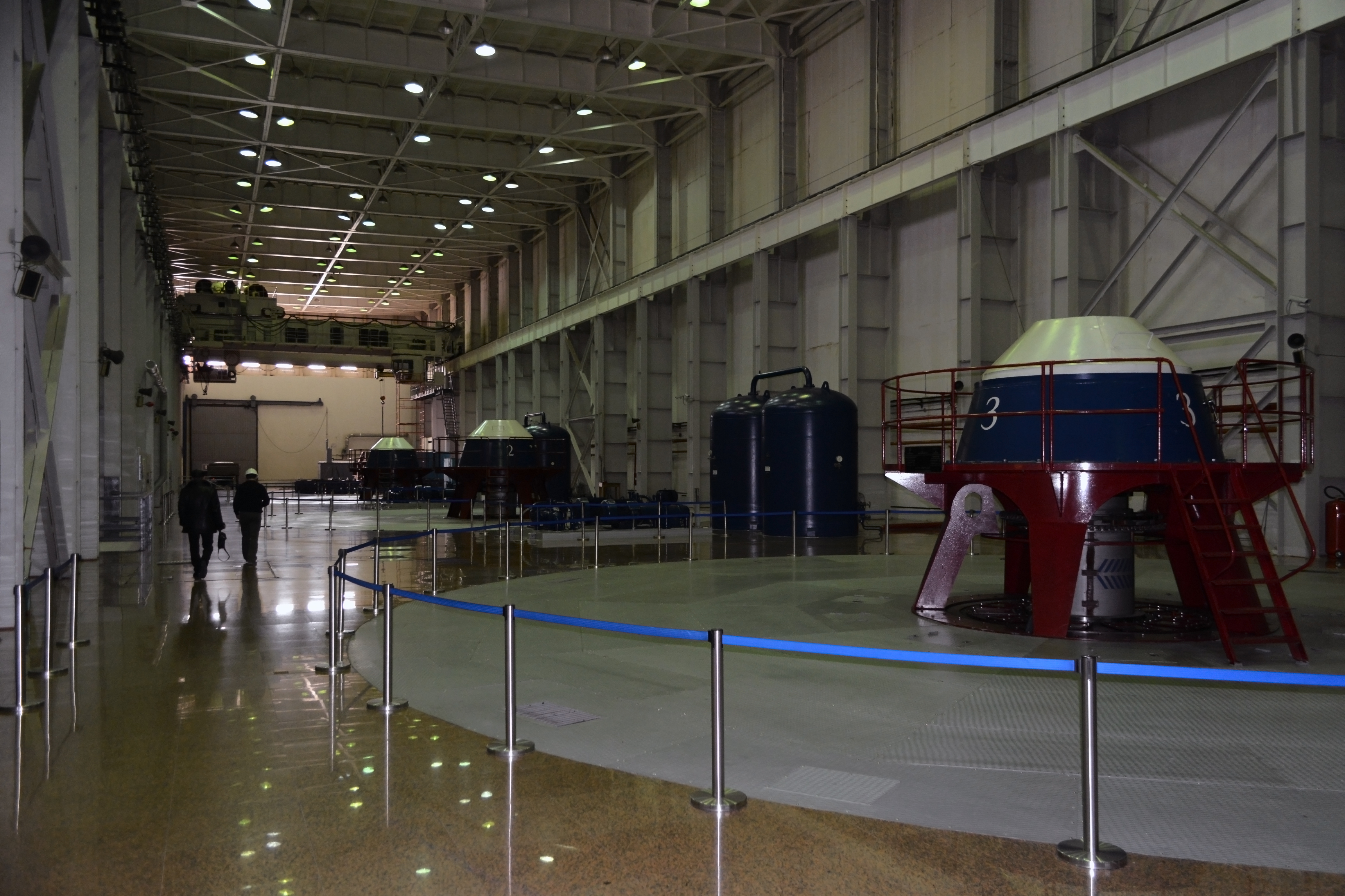 Vilyuy Hydroelectric Station III (Svetlinskaya Hydroelectric Station). Vilyuy River, Sakha (Yakutia) Republic, Russia